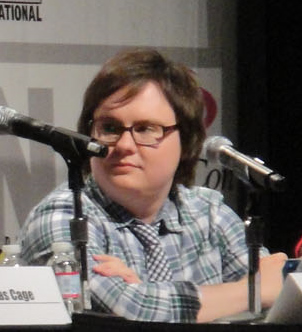 Actor Clark Duke participating in the Kick-Ass film panel at WonderCon 2010.